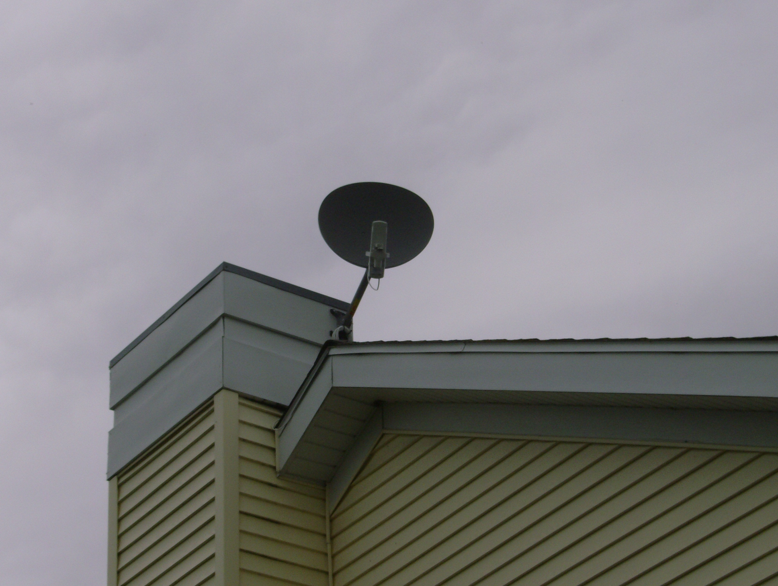 A 2.4Ghz Motorola Canopy "subscriber module" with a reflector dish.